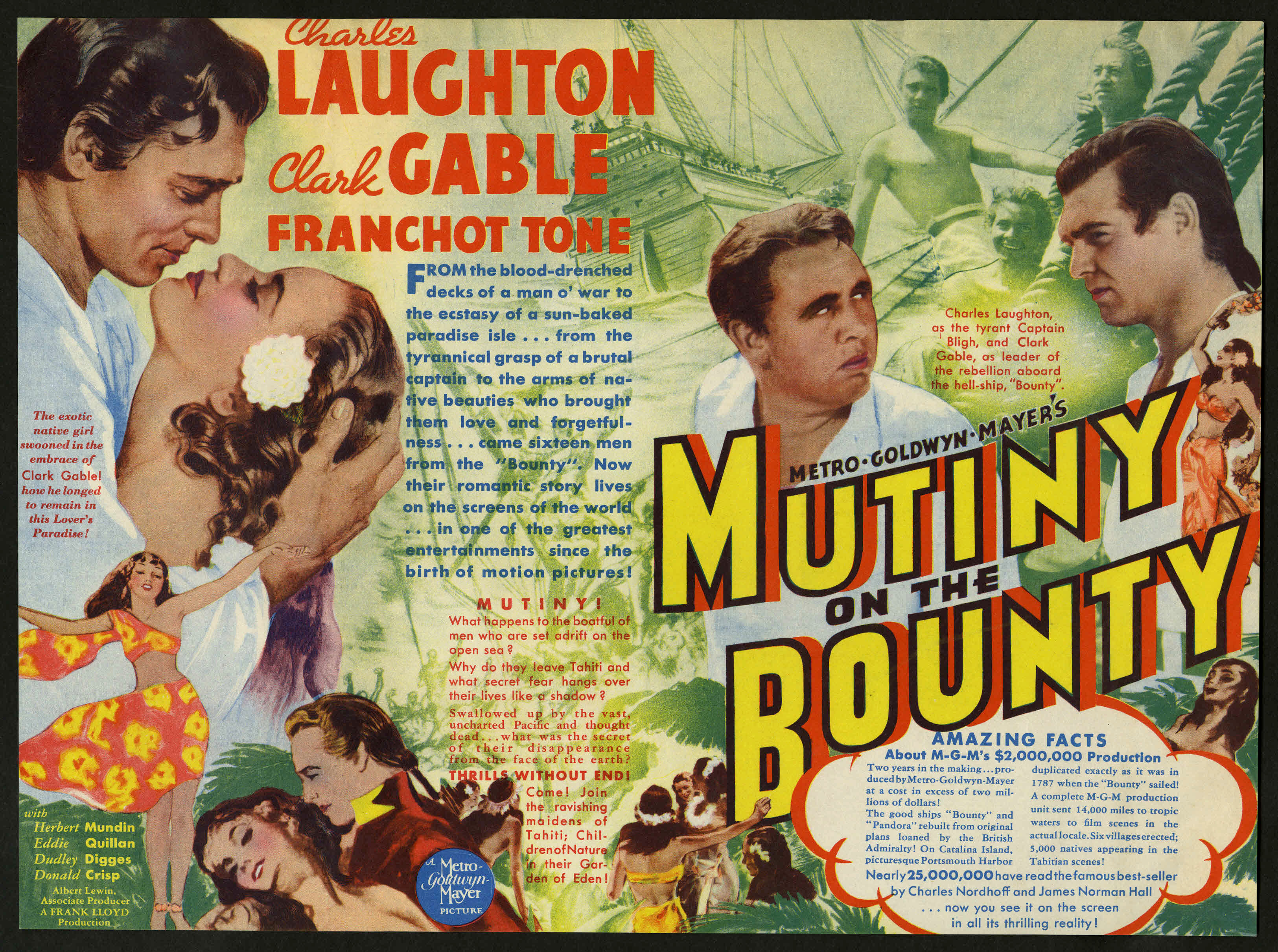 Poster for the American film Mutiny on the Bounty (1935).